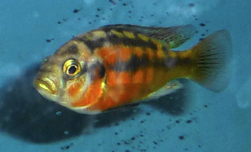 Haplochromis (Paralabidochromis) sauvagei (Pfeffer, 1896) Synonyms: Haplochromis sp. "rock kribensis", Paralabidochromis sp. "rock kribensis"